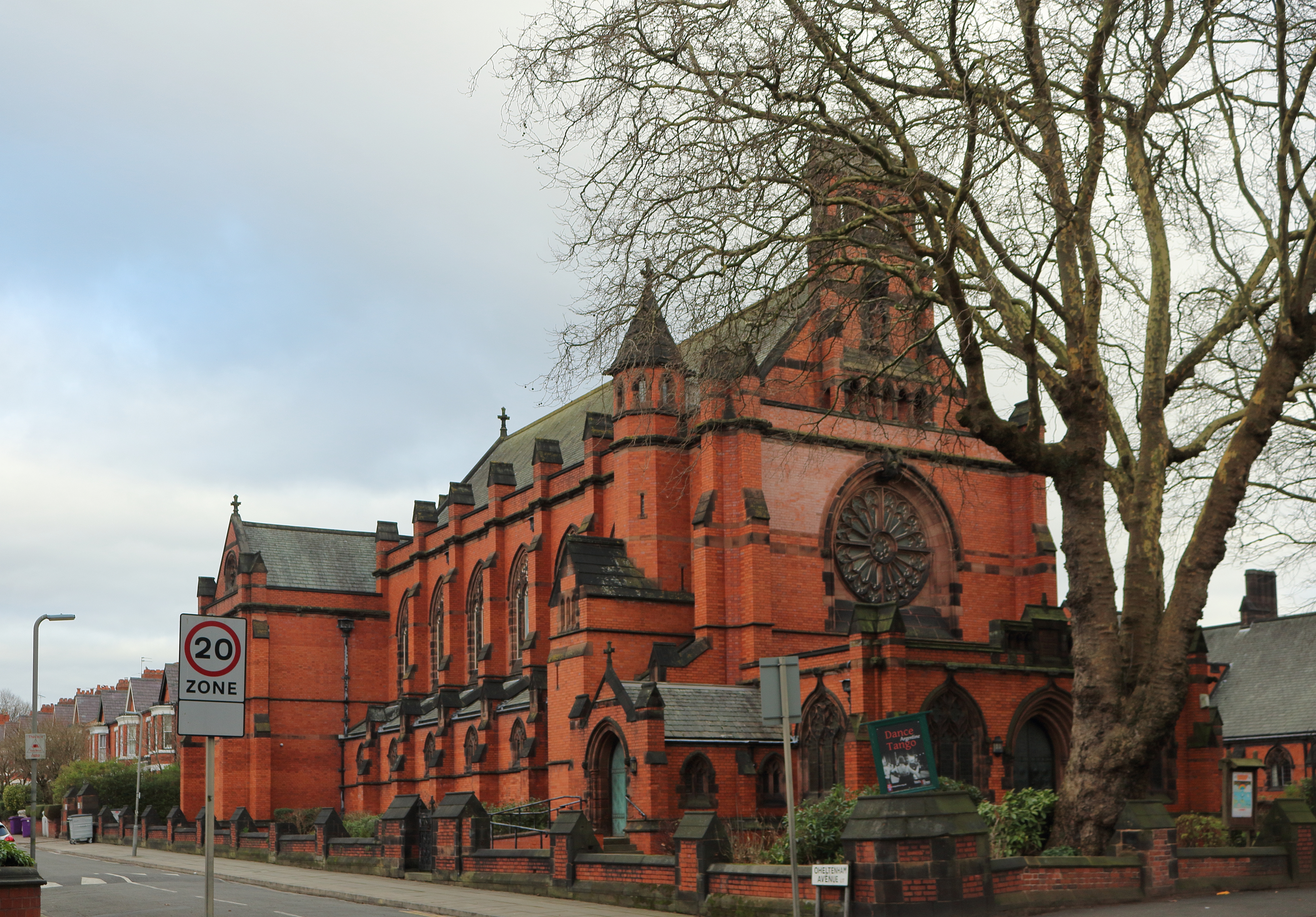 Grade I listed church in Liverpool; western elevation (south aisle) along Cheltenham Avenue from Ullet Road.